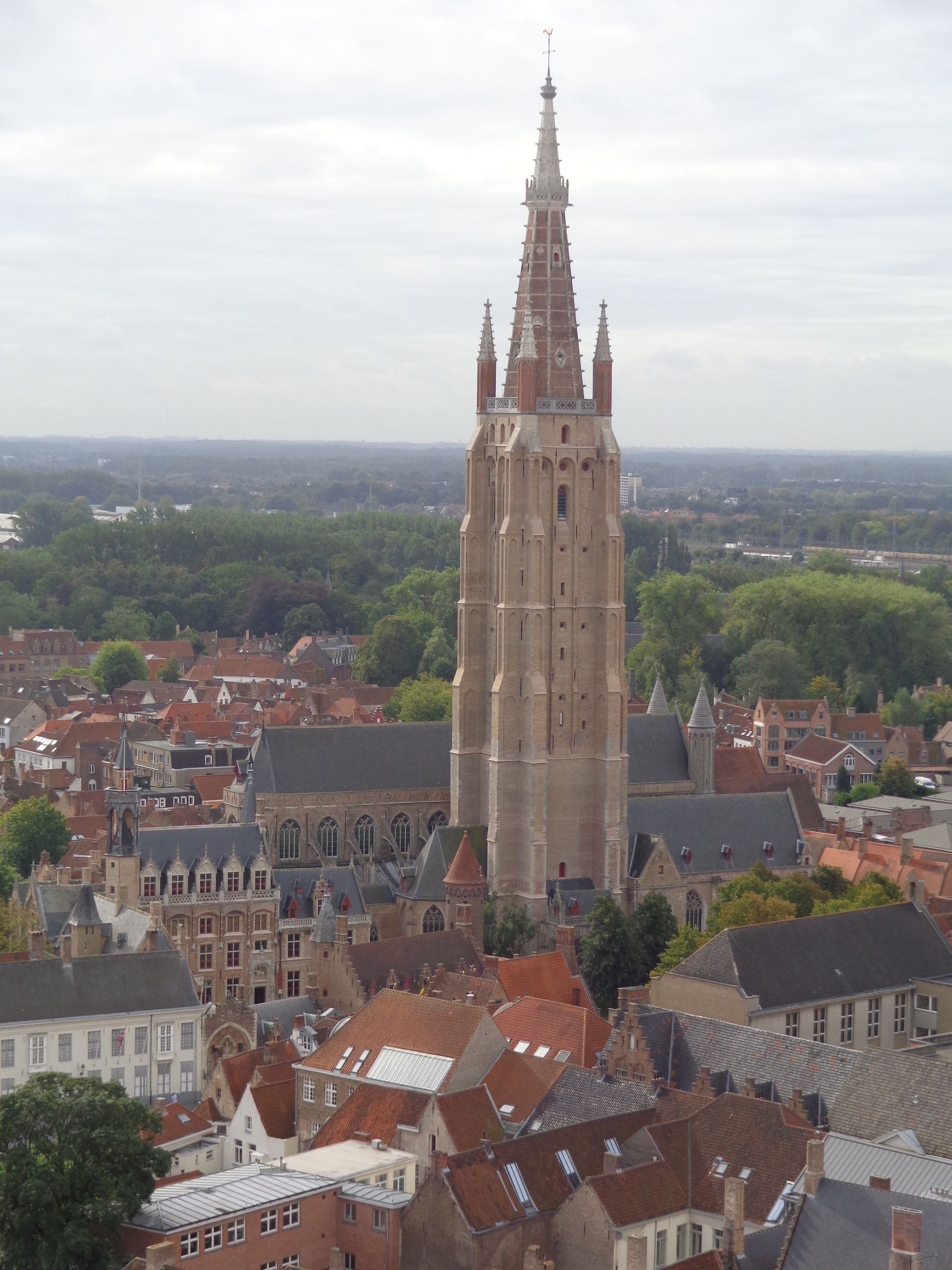 Onze-Lieve-Vrouwekerk (Brugge)